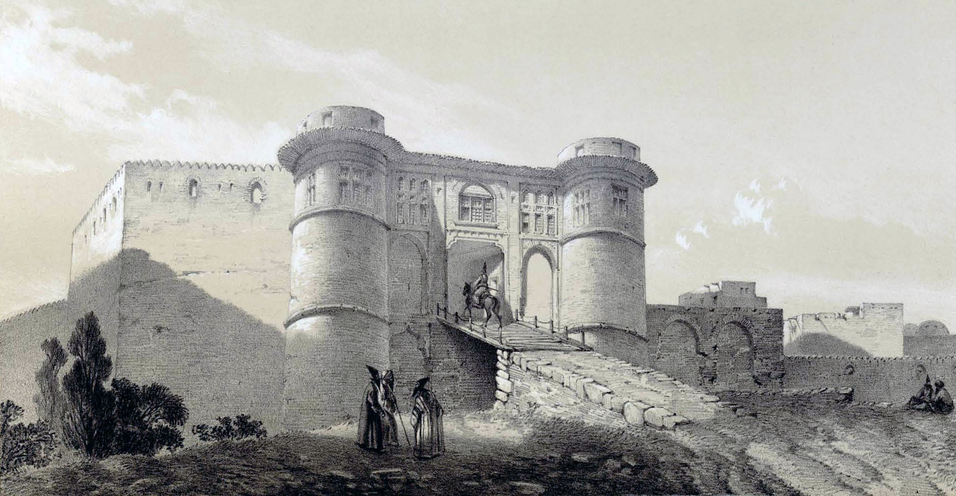 Castle Nahavend